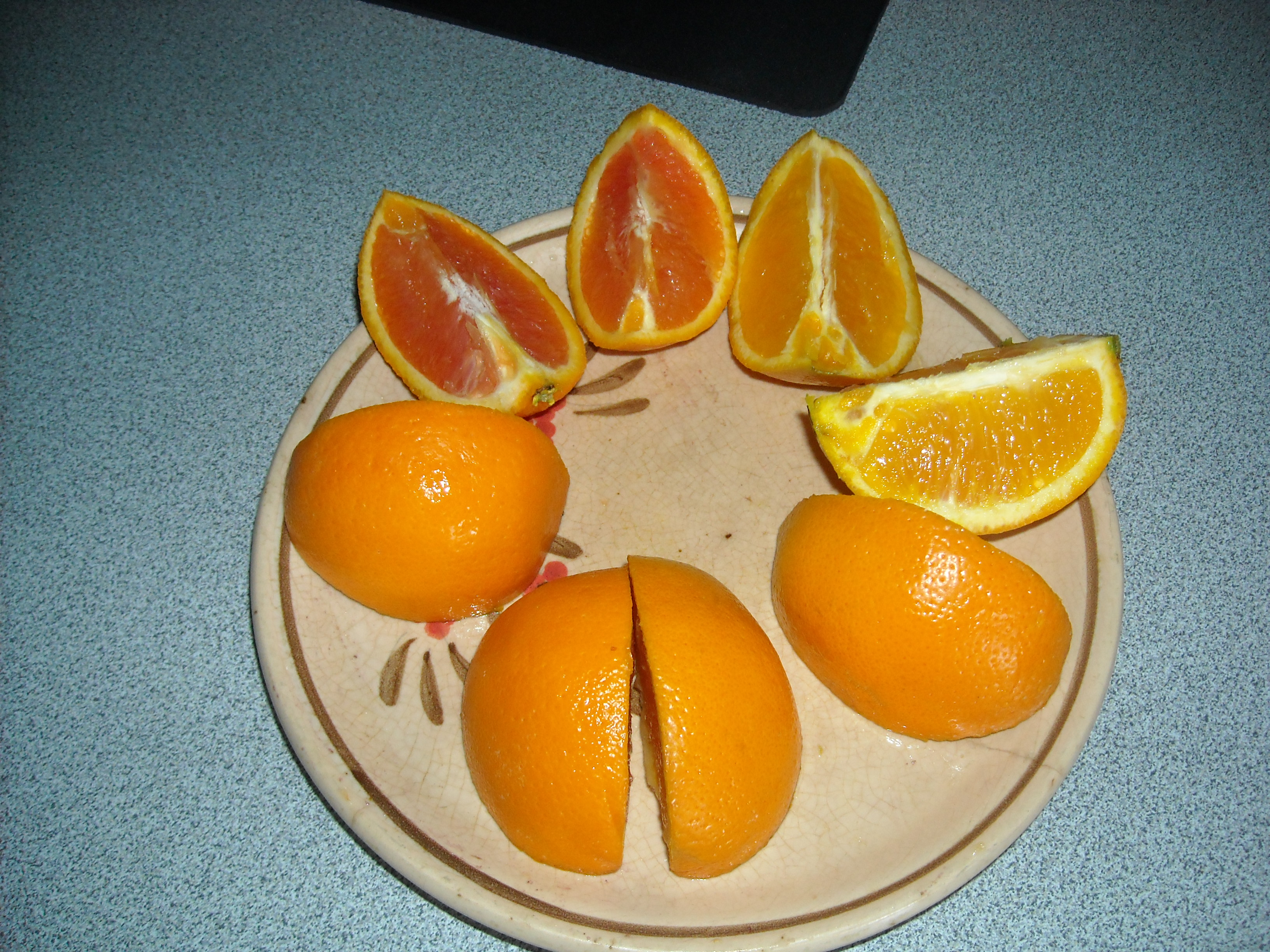 Sliced regular and blood oranges together.(EDIT: THOSE ARE NOT ACTUALLY BLOOD ORANGES, THEY ARE CARA CARA's